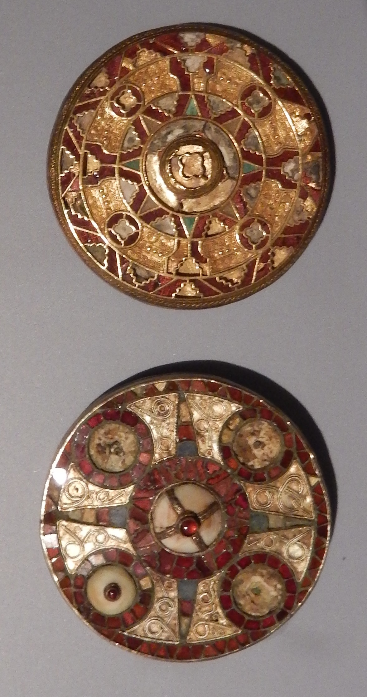 Two Anglo-Saxon composite jewelled disc brooches, made from gold, glass, garnet and shell. 600-700. Sarre and Monkton, Kent. AN1934.202 and AN1972.1401.